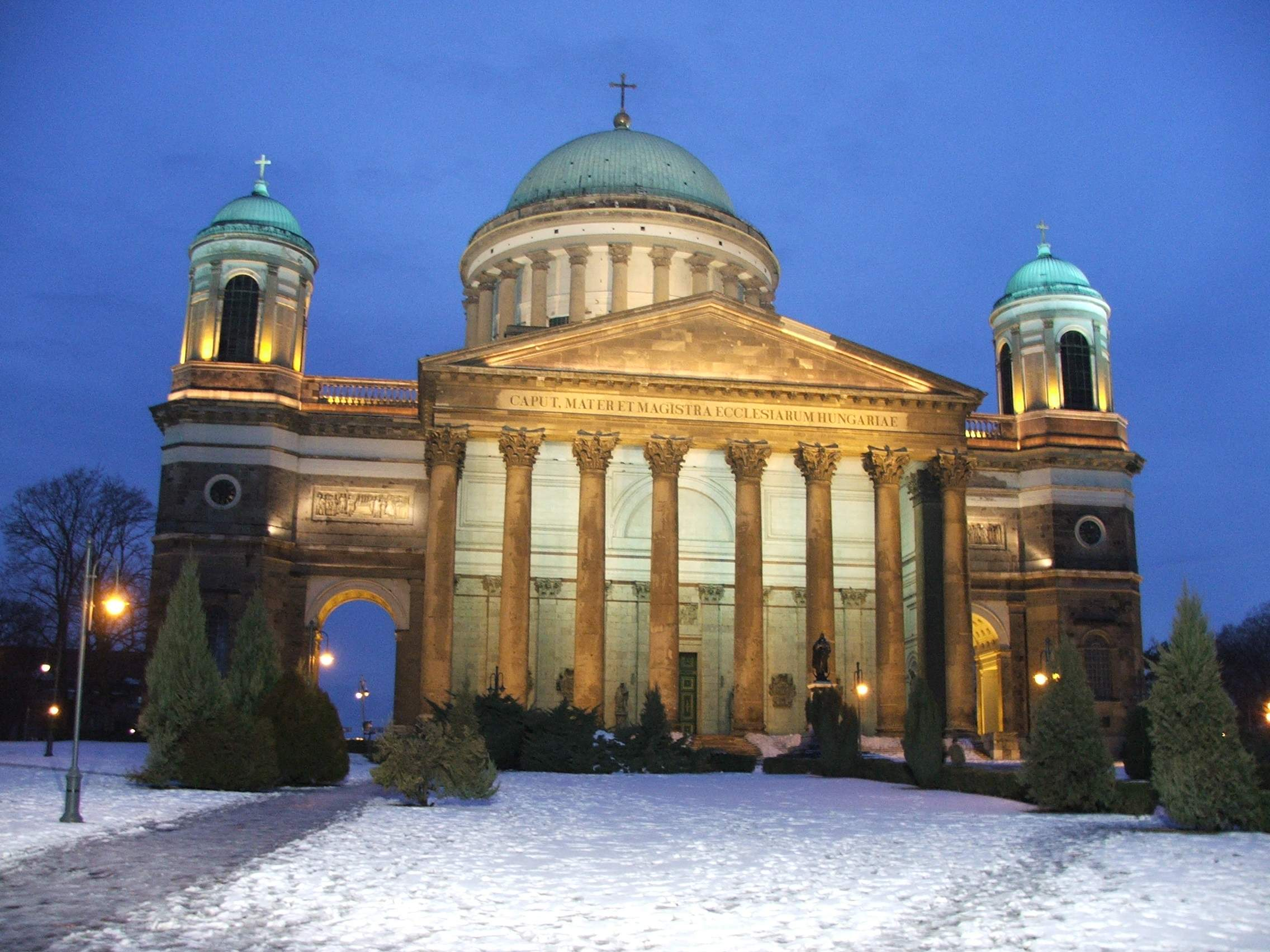 Esztergom Cathedral